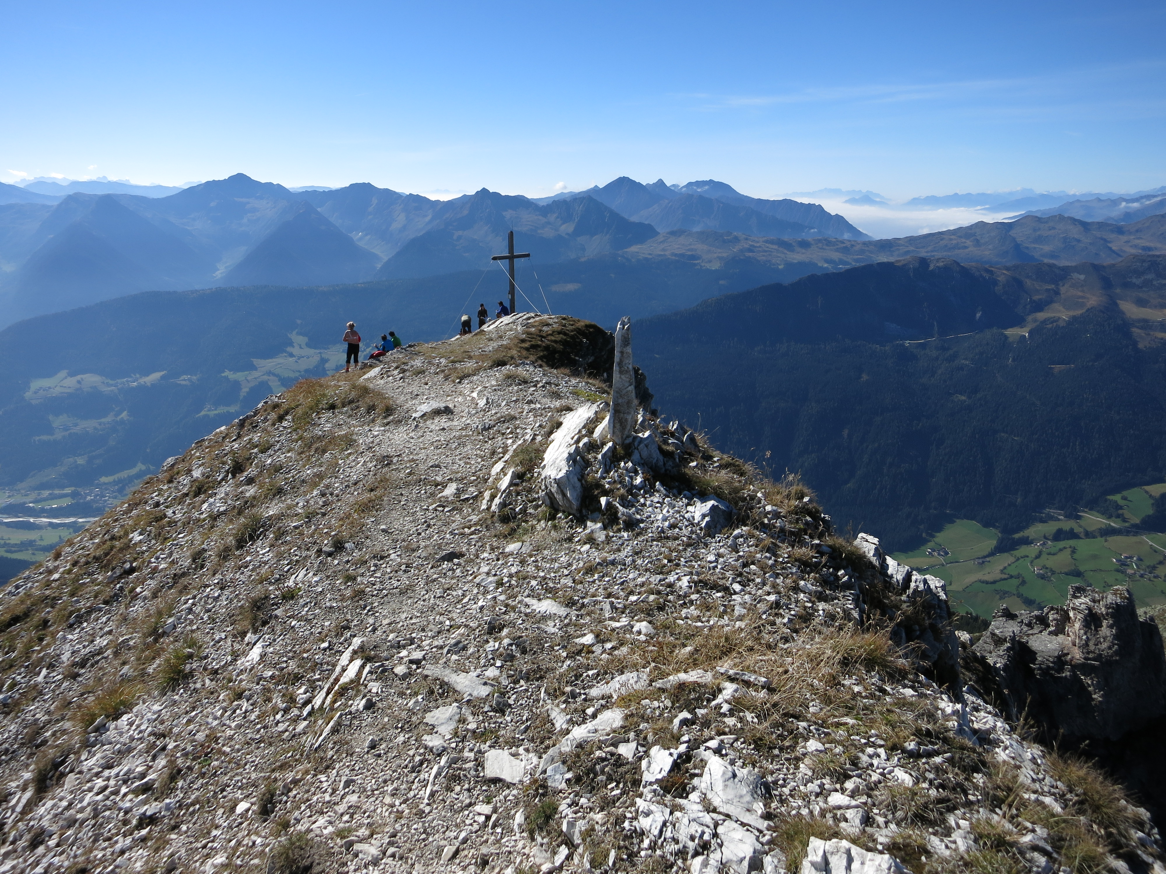 On top of mountain Telfer Weissen, Suedtirol